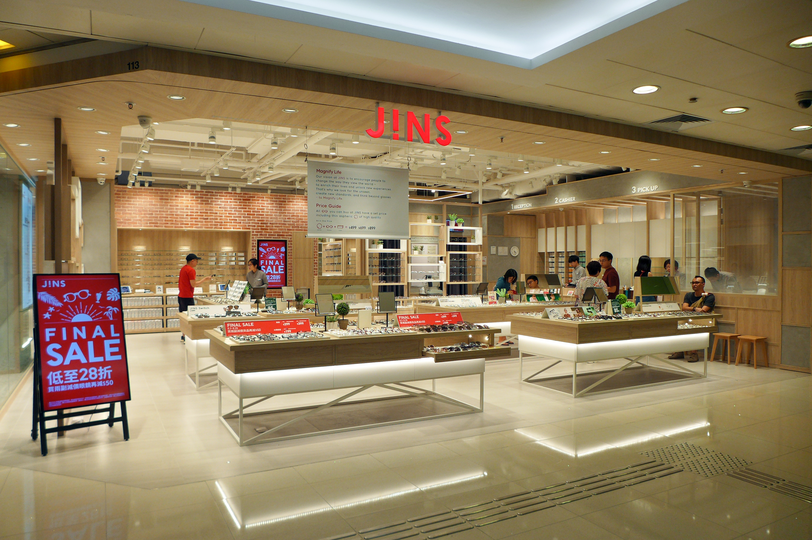 JINS in East Point City